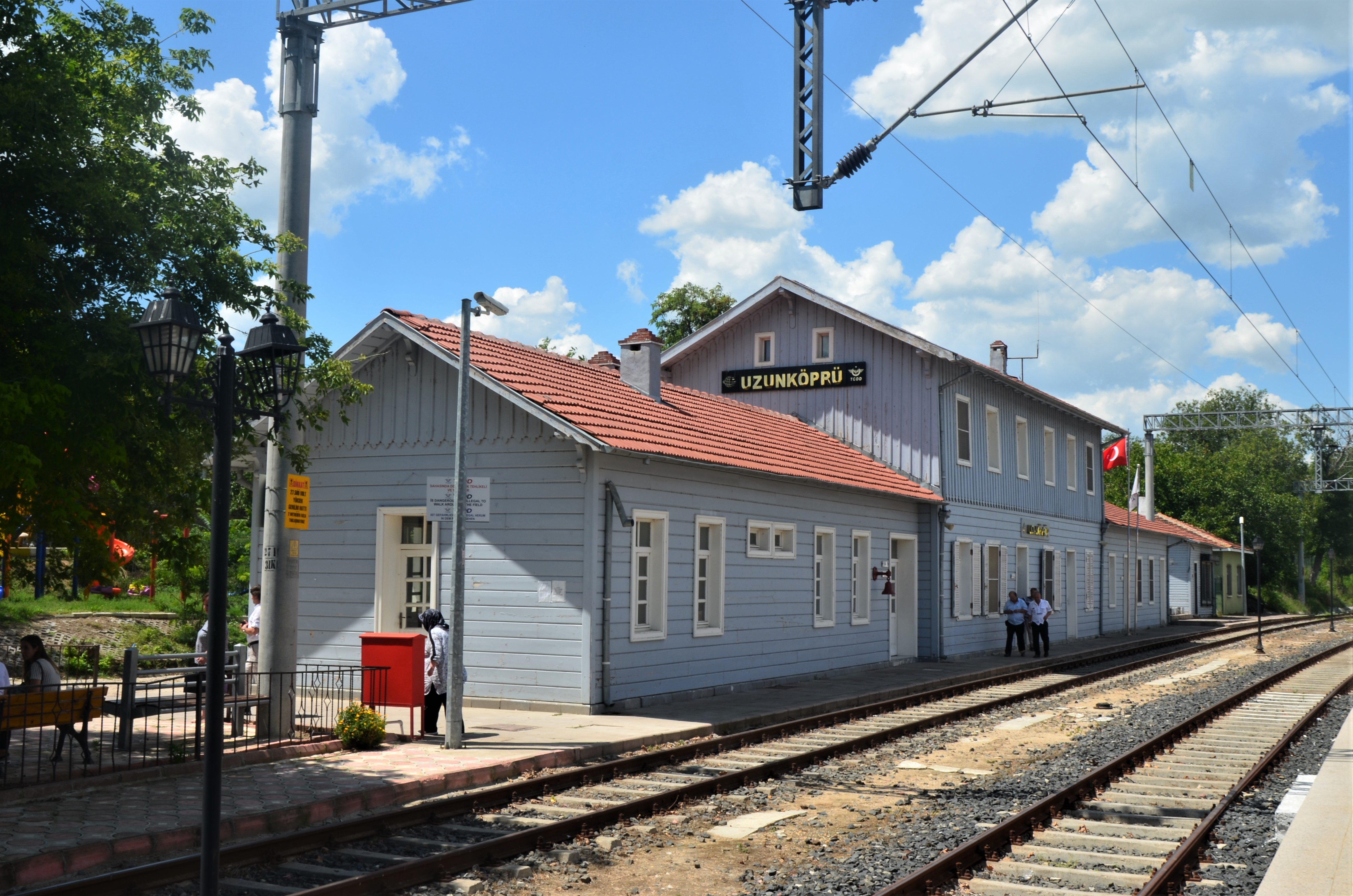 Uzunköprü train station in Edirne Province, Turkey